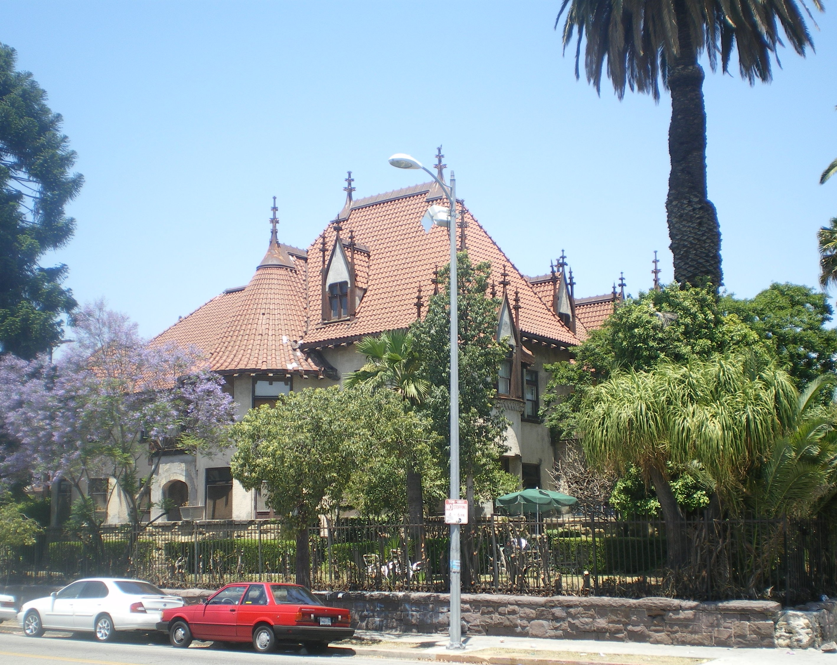 The Susana Machado Bernard House and Barn — 845 S. Lake St., Pico-Union district, Los Angeles, California. The Gothic Revival style Victorian residence was designed by John Parkinson in 1901. A Los Angeles Historic-Cultural Monument, and on the National Register of Historic Places in Los Angeles.